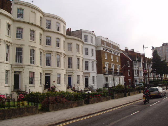 Seafront houses in Central Parade, Herne Bay, UK